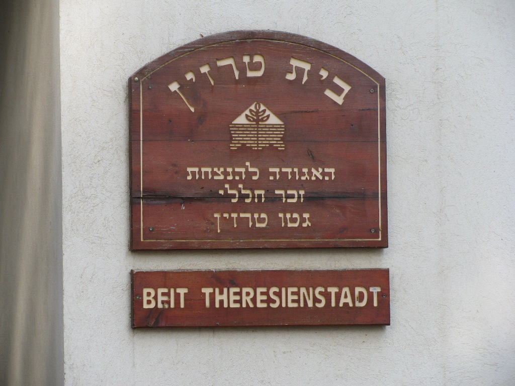 Sign at the entrance to Beit Terezin Kibbutz Givat Haim